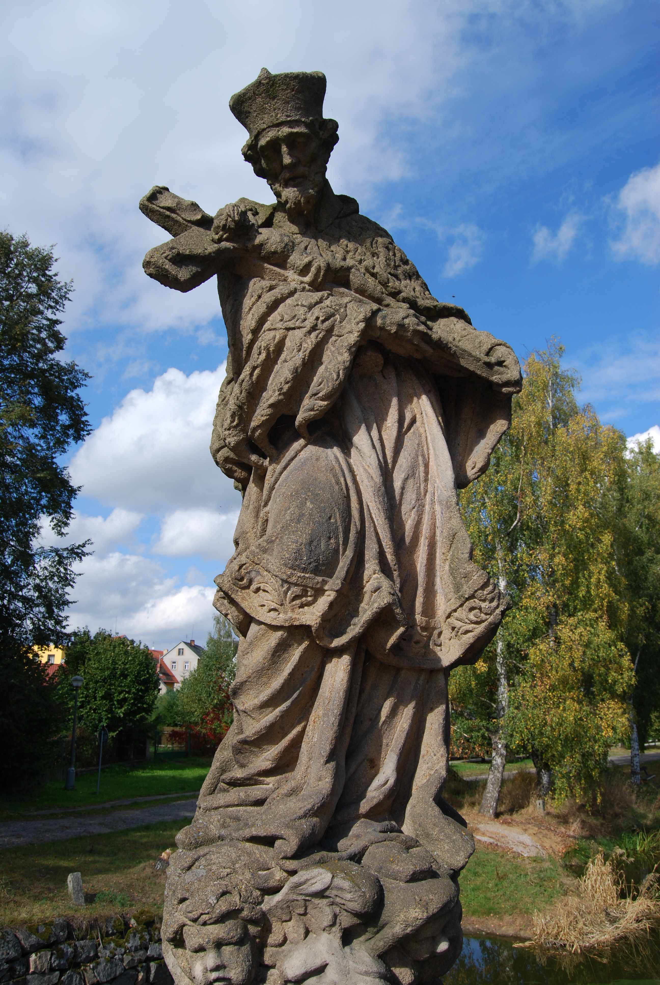 Statue on the bridge between Zámecký and Podhájč pond in Lnáře town, Strakonice District, Czech Republic.